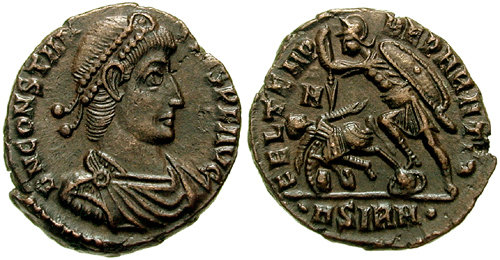 CONSTANTIUS II. 337-361 AD. Æ half Centenionalis 17mm (2.84 g). Sirmium mint (1st oficina). Struck 359 AD. DN CONSTANTIVS P F AVG, pearl-diademed, draped, and cuirassed bust right. FEL TEMP REPARATIO, soldier standing left, spearing fallen horseman; M-//•ASIRM•. RIC VIII 75; LRBC 1612. Good VF.